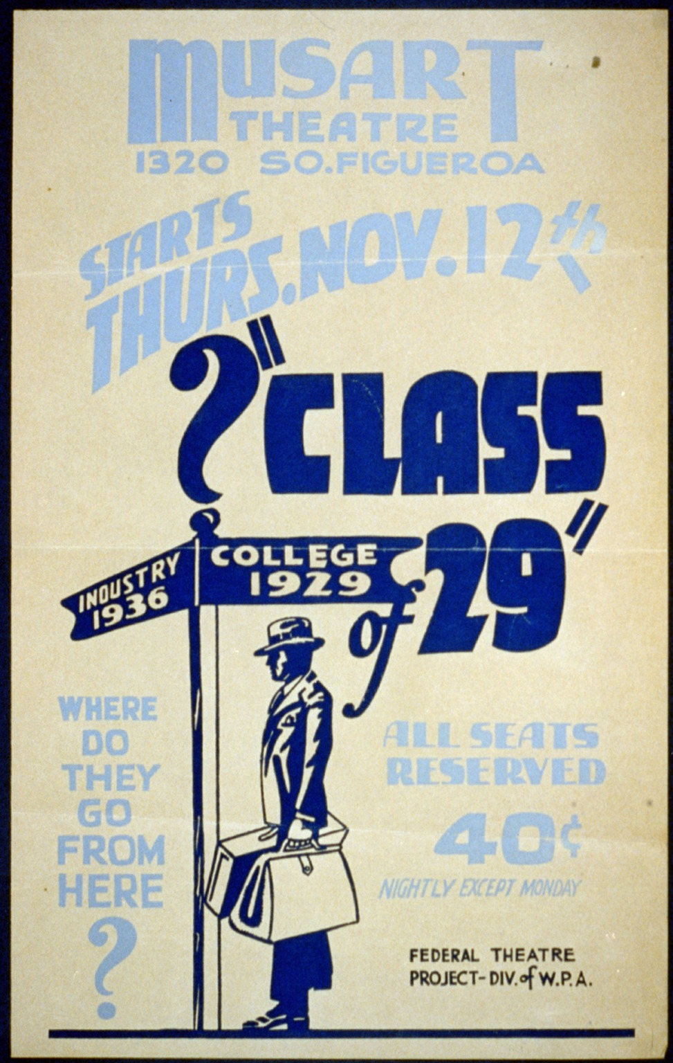 Title: "Class of 29" Abstract: Poster for Federal Theatre Project presentation of "Class of 29" at the Musart Theatre, 1320 S. Figueroa, Los Angeles, Calif., showing a man standing on a street corner with a street sign that reads "College 1929" in one direction and "Industry 1936" in the other. Physical description: 1 print (poster) : silkscreen, color. Notes: Work Projects Administration Poster Collection (Library of Congress).